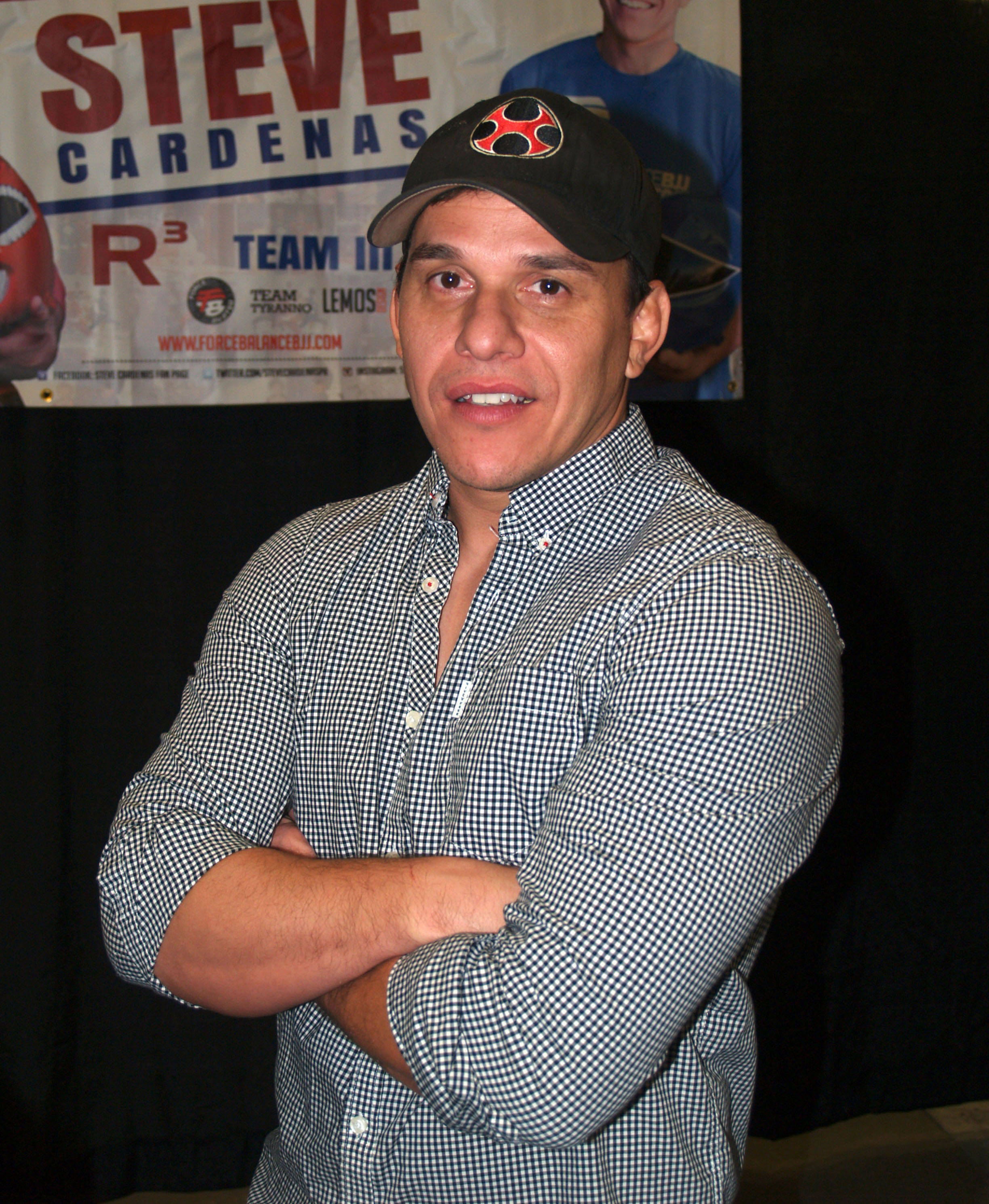 Actor Steve Cardenas, star of the TV series Mighty Morphin Power Rangers, at the Meadowlands Exposition Center in Secaucus, New Jersey on April 17, 2016, Day 2 of the 2016 East Coast Comicon. This photo was created by Luigi Novi. It is not in the public domain, and use of this file outside of the licensing terms is a copyright violation.